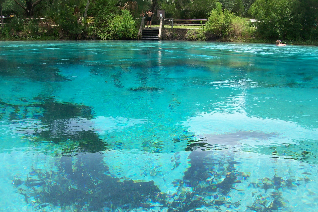 Silver Glen Springs, Ocala National Forest. Yellow Bluff, Marion County, Florida.